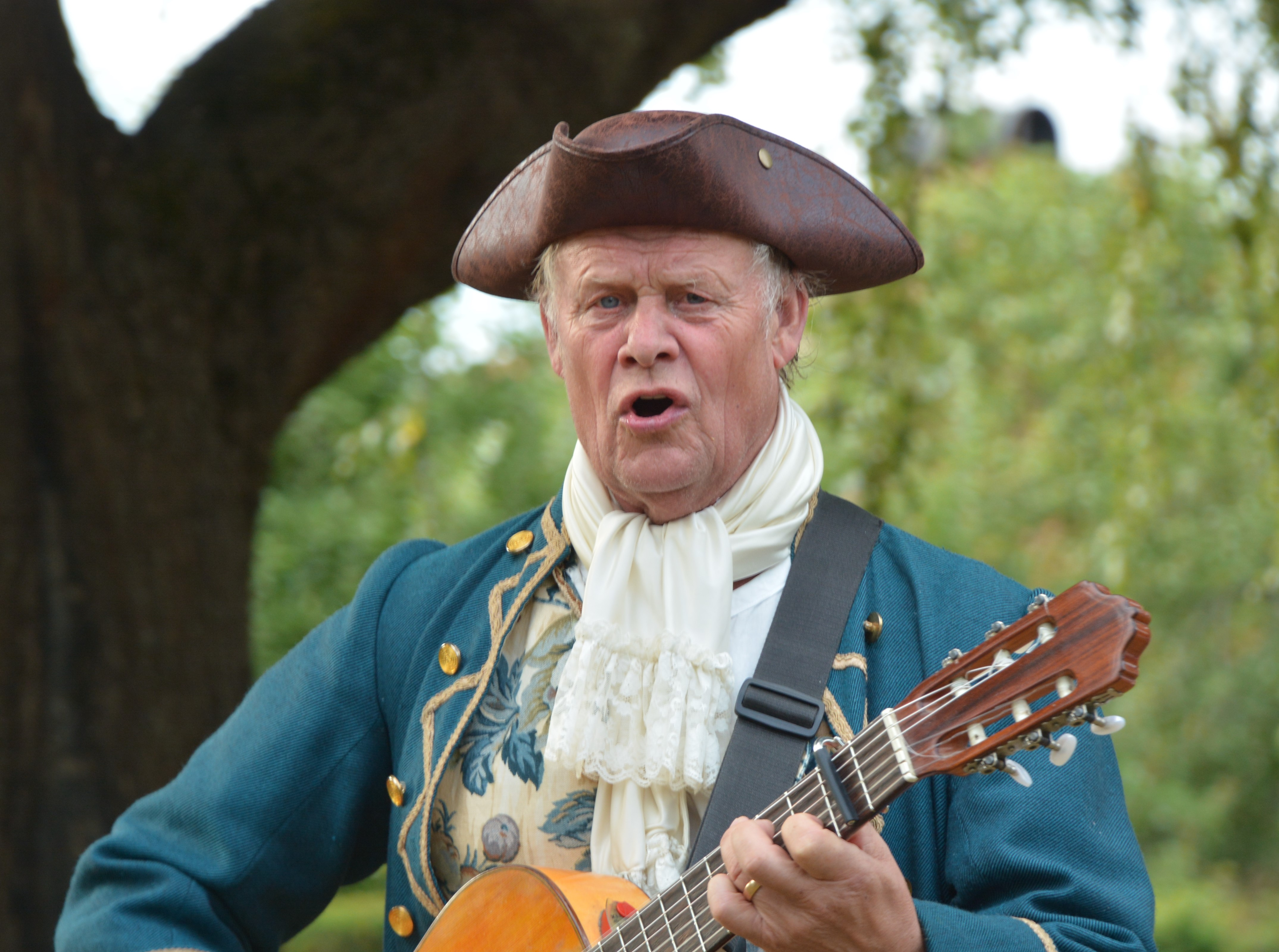 Bernt Törnblom på Bellmansdag vid Bellmanskällan i Mälarhöjden i Stockholm 26 juli 2017